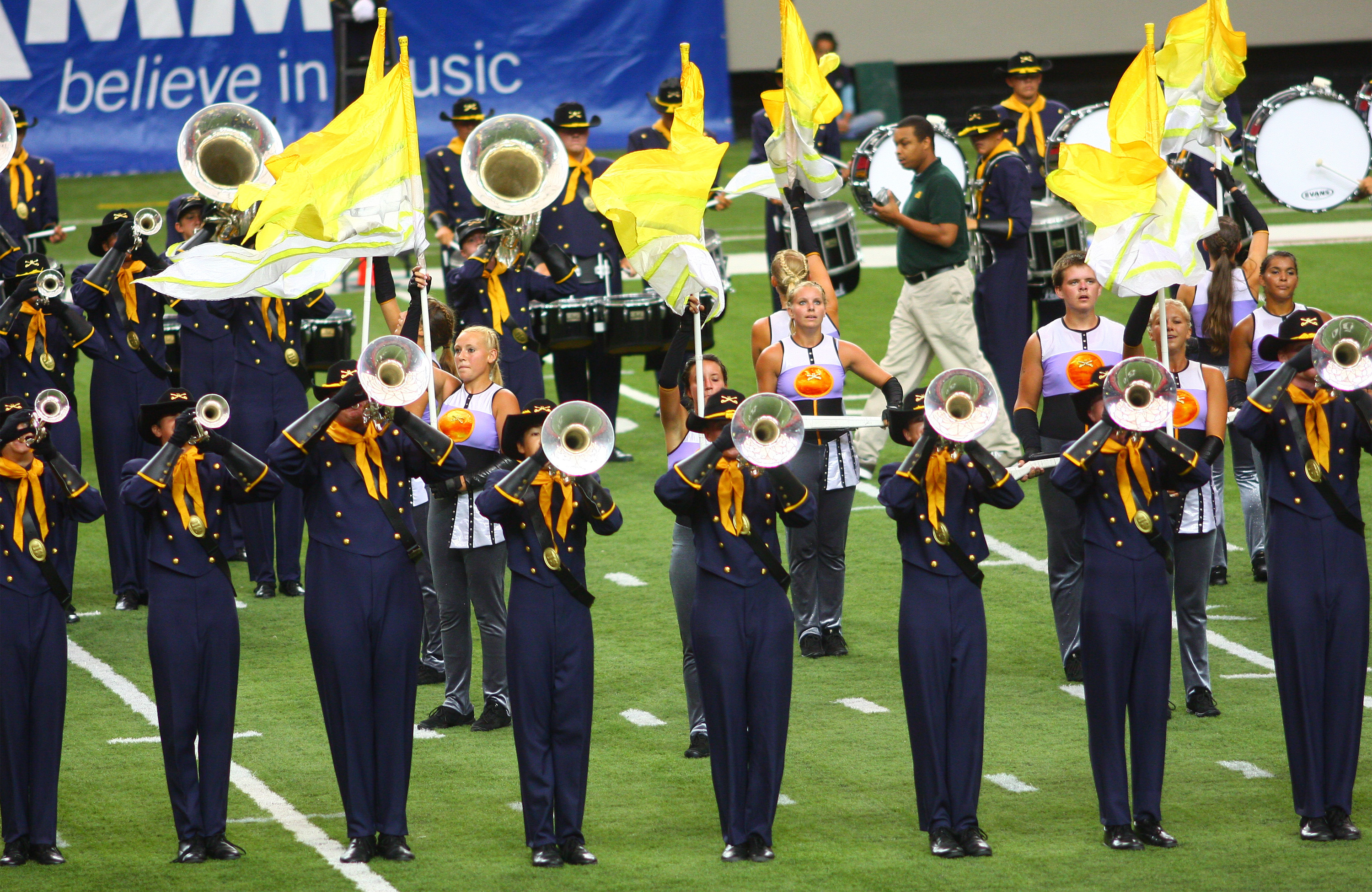 The Troopers, 7/26/08.